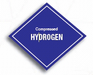 Blue_diamond_compressed_hydrogen , marking of hydrogen vehicles